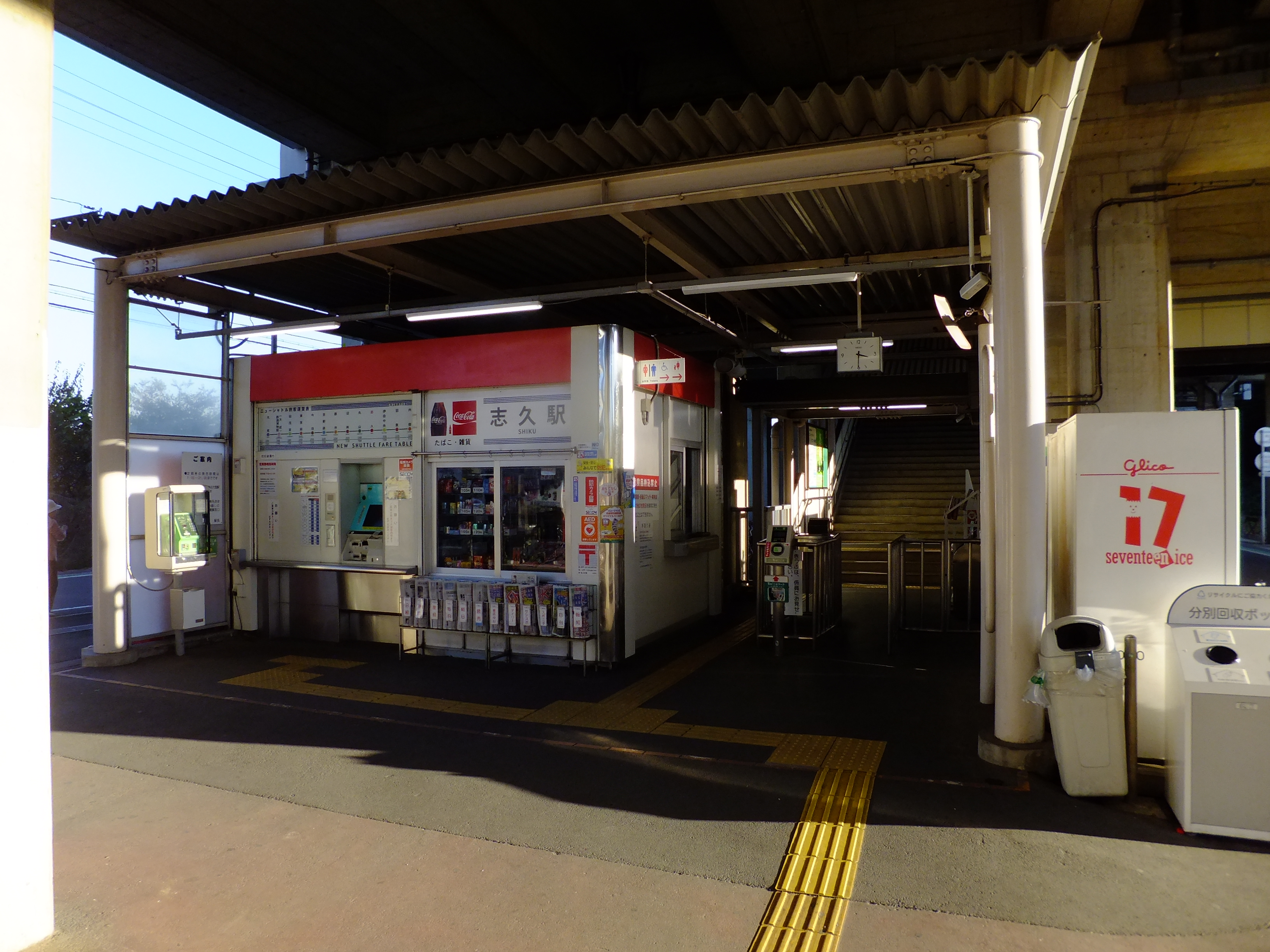 Shiku Station on the New Shuttle Line, in Ina, Saitama, Japan